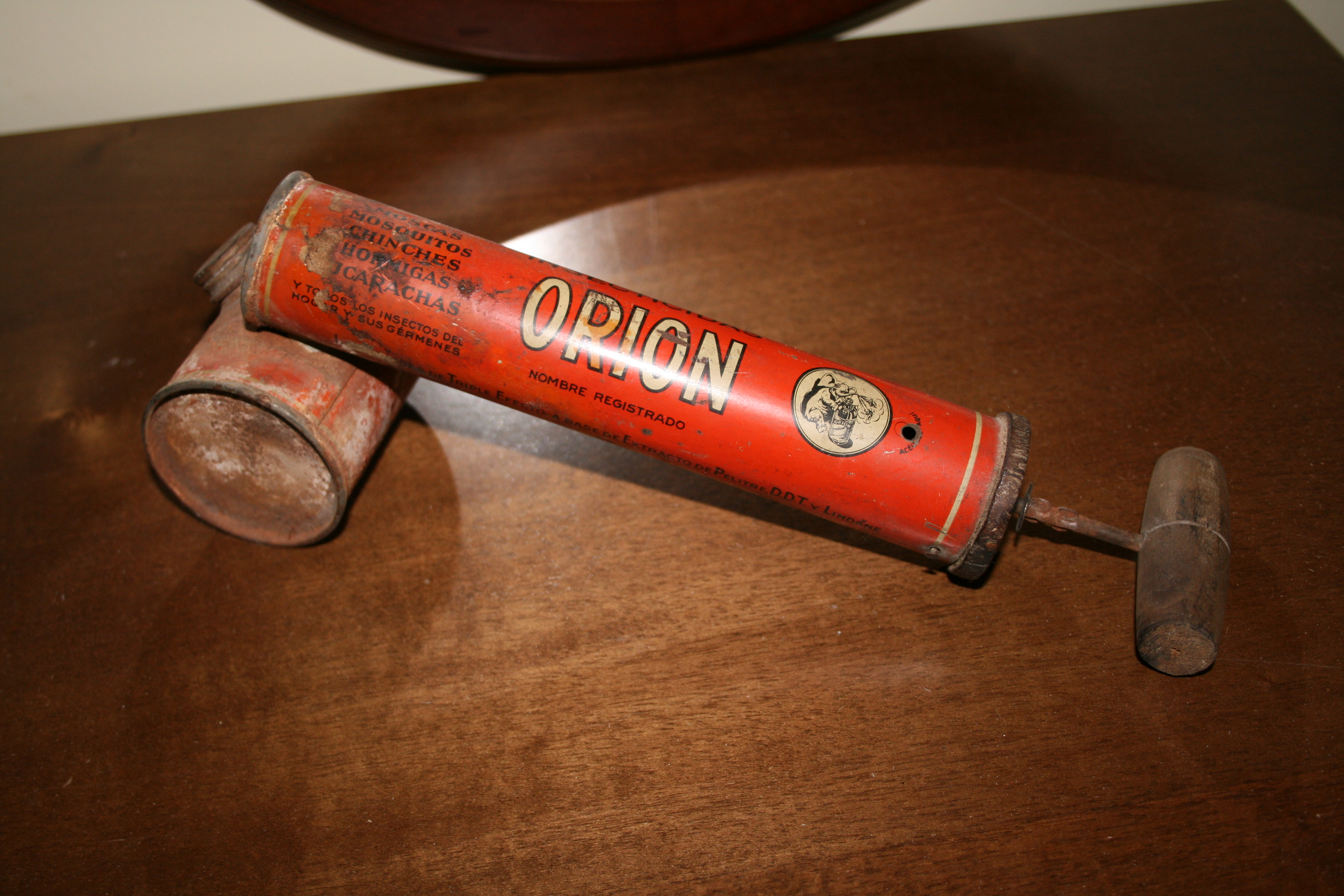 Insecticide Orion